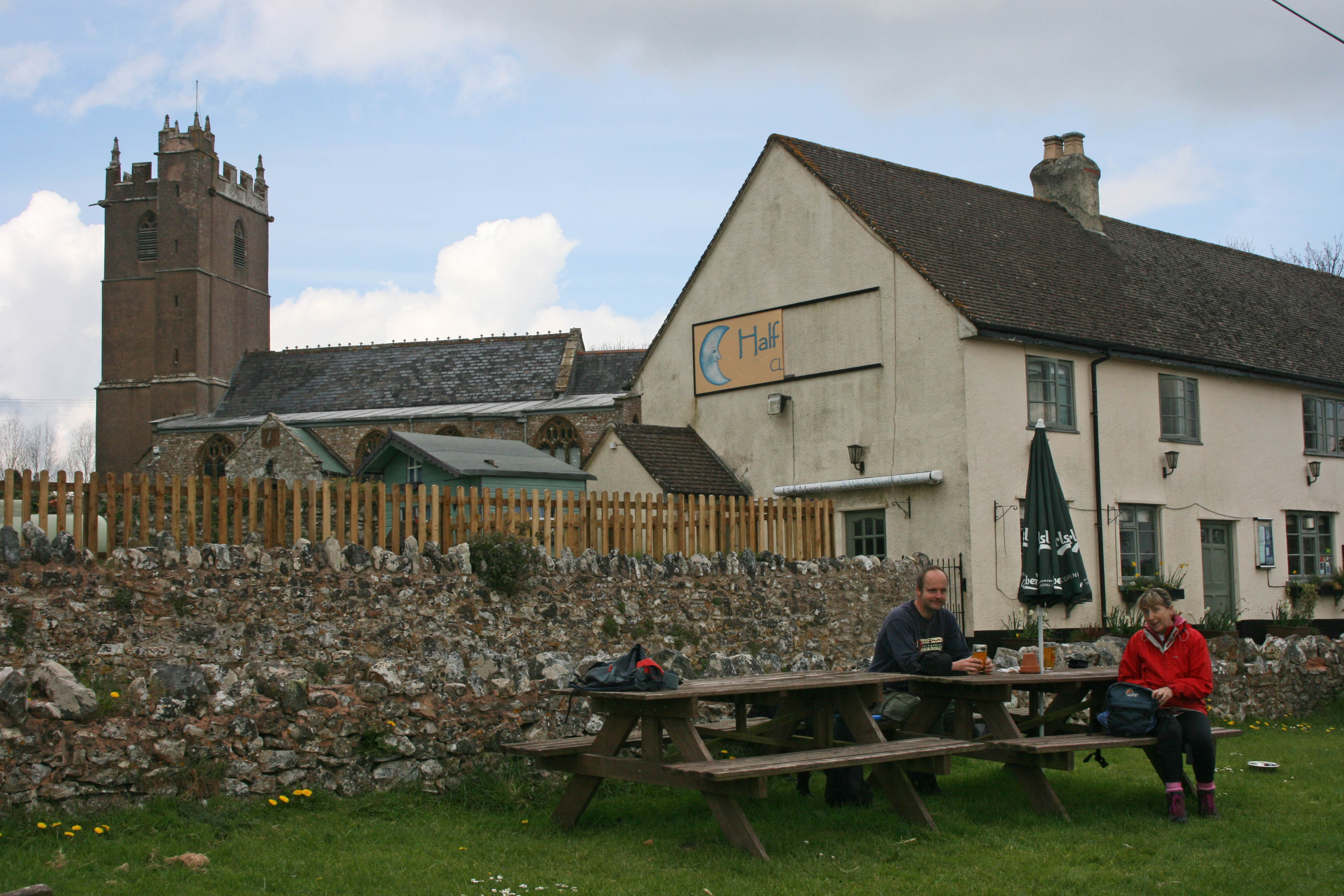 Half Moon Inn and Church , Clayhidon